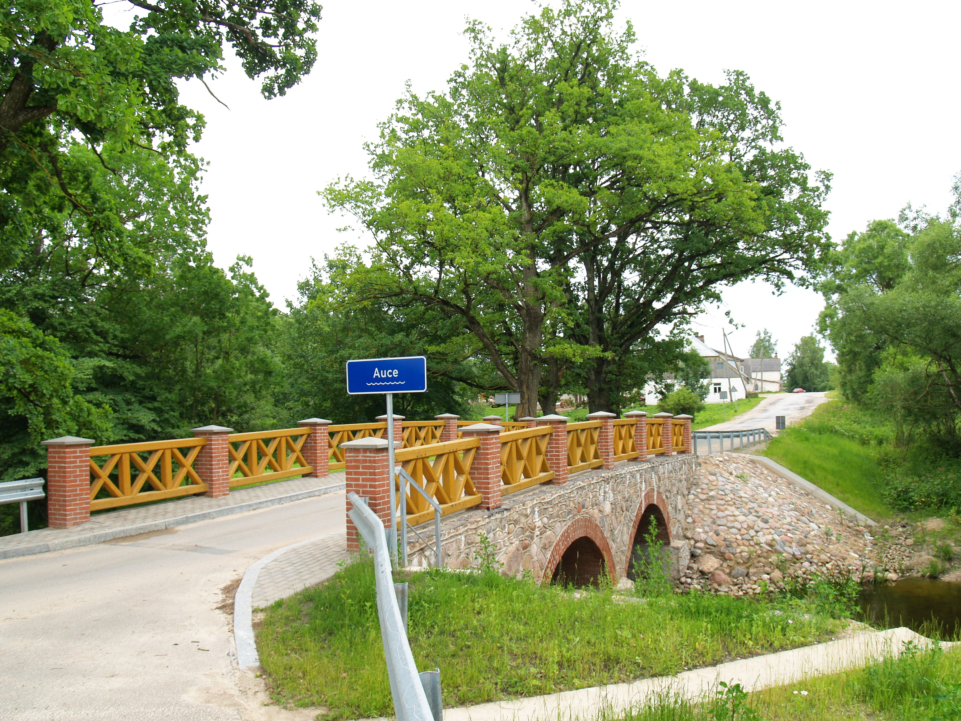 Tilta pār Auci Bēnē (Bridge over Auce river in Bene)